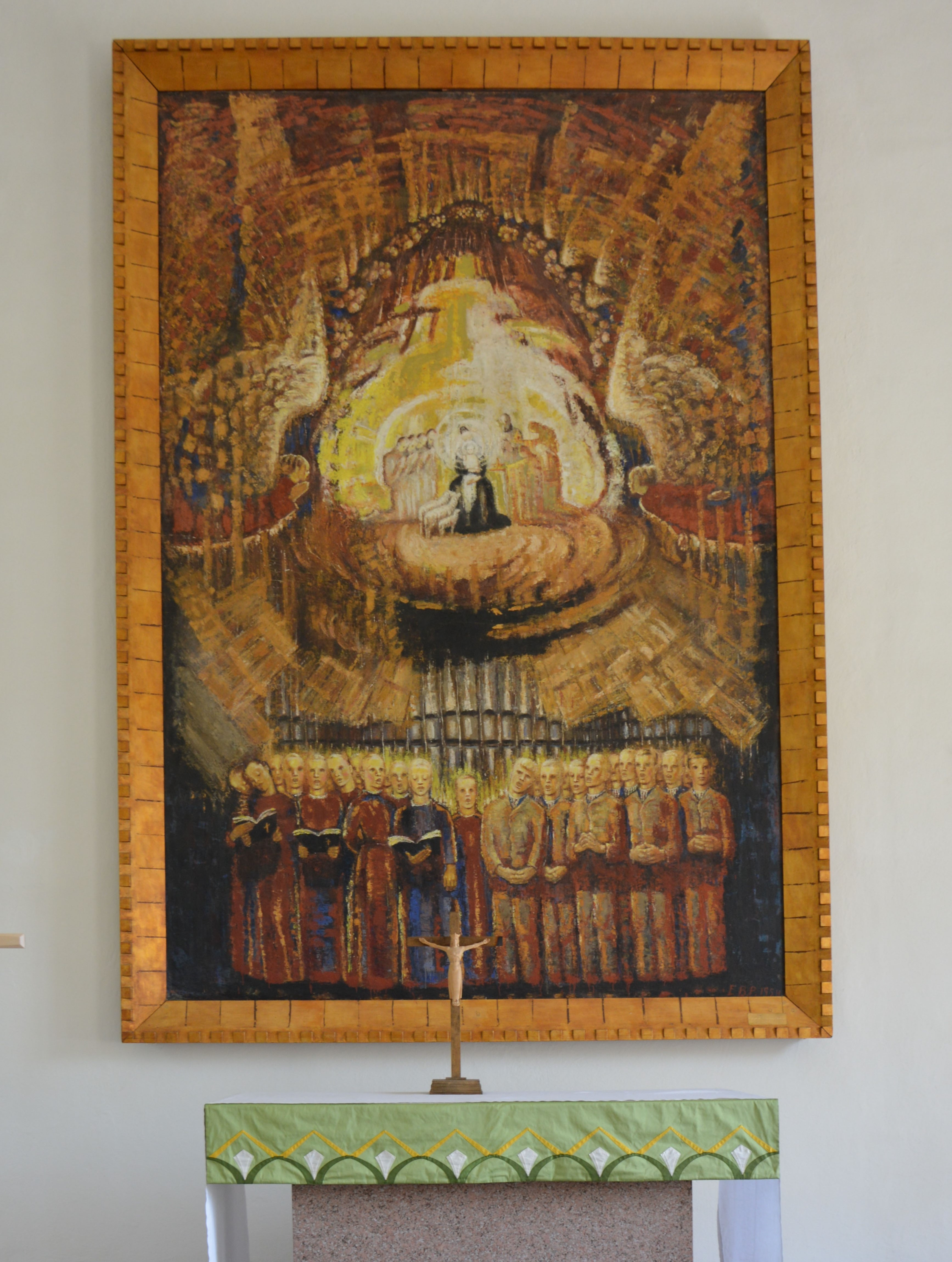 Långasjö Chuch.The altarpieceThe heavenly and earthly worship canticle.